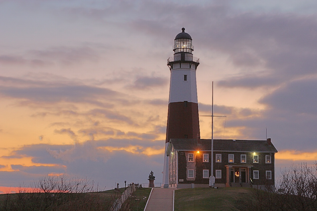 Montauk Point Lighthouse taken in the early morning hours of 12/10/2005.